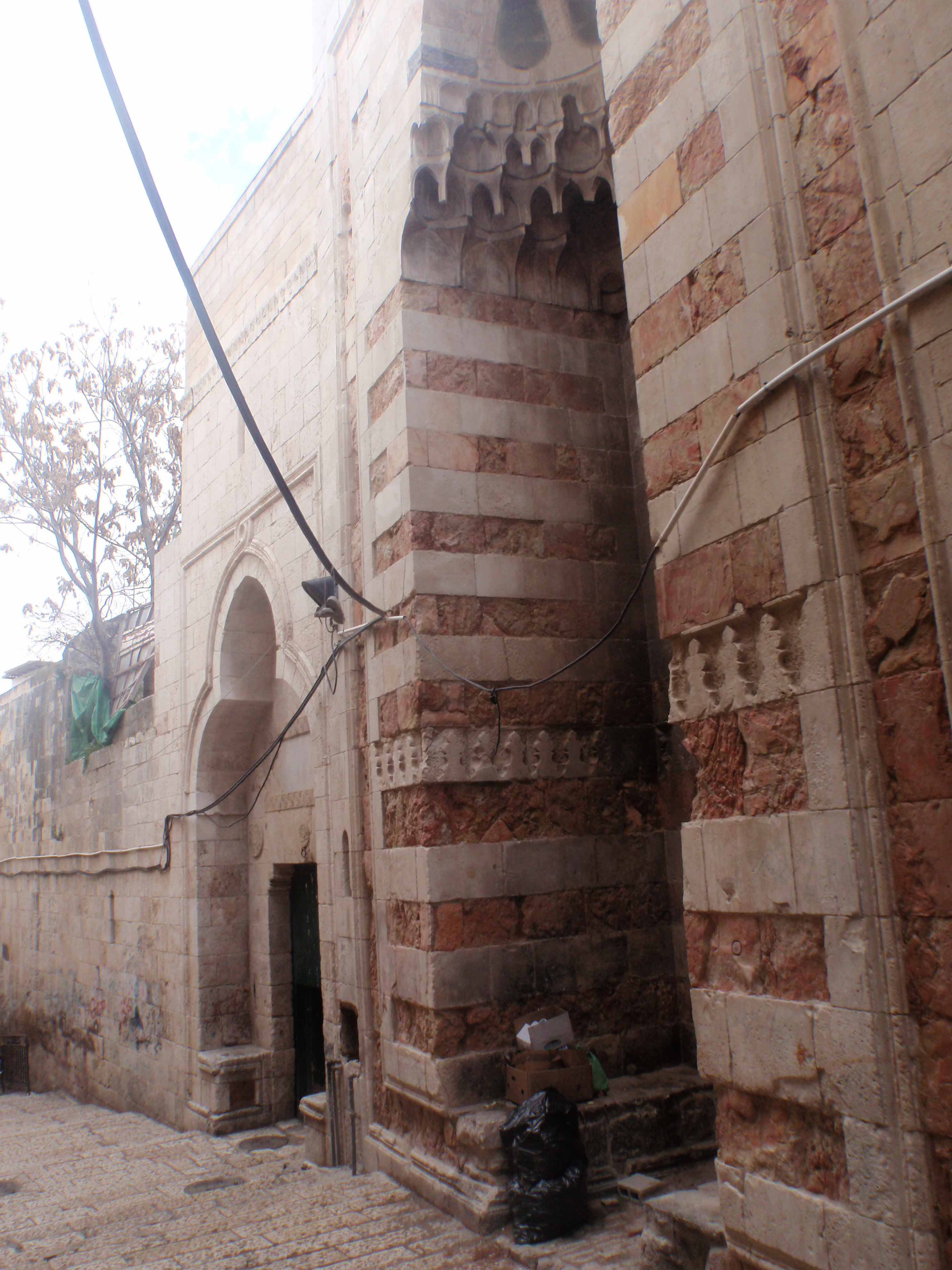 Hasseki Sultan Imaret, Jerusalem